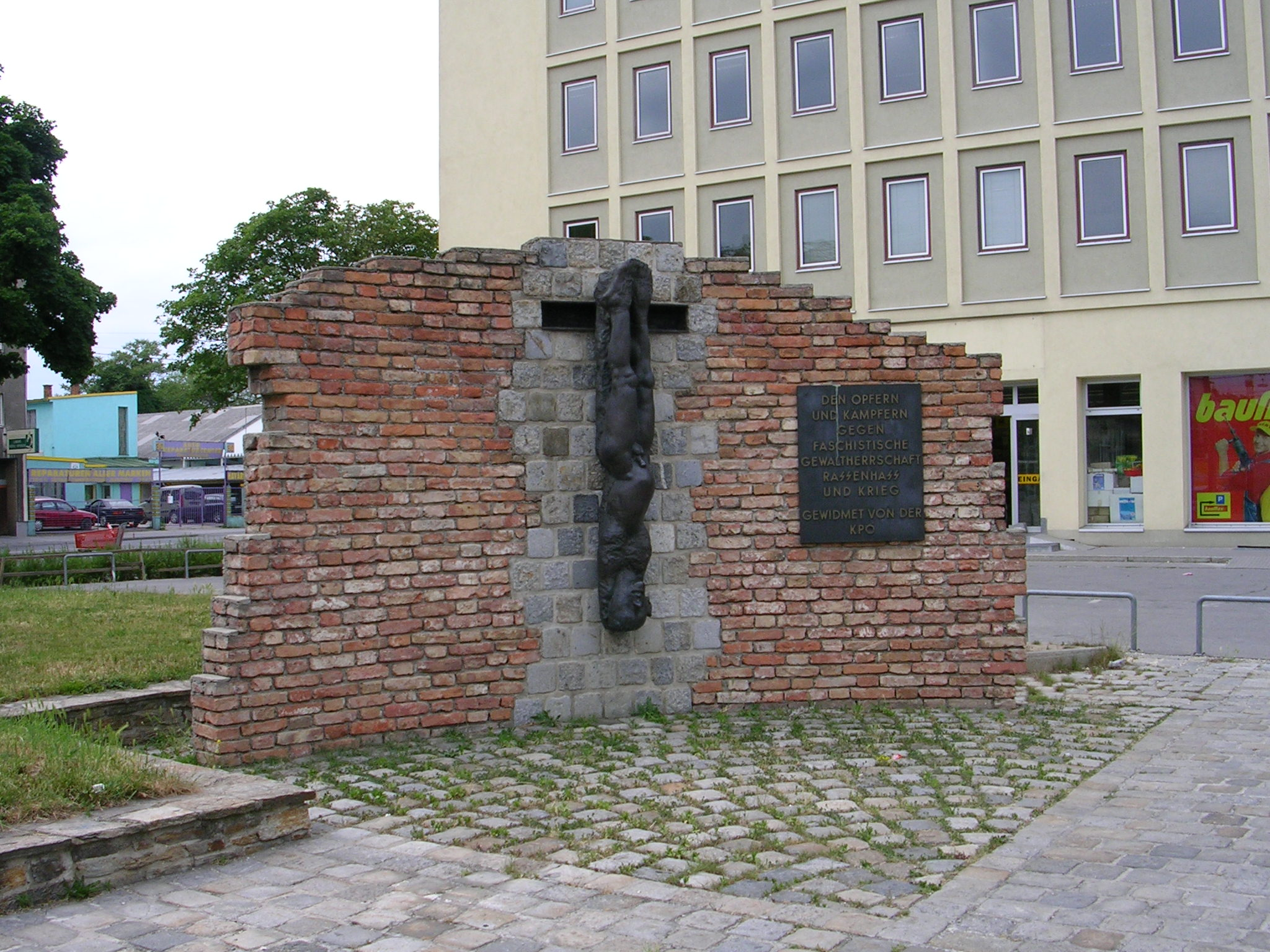 Memorial of the KPÖ, Wien-Brigittenau